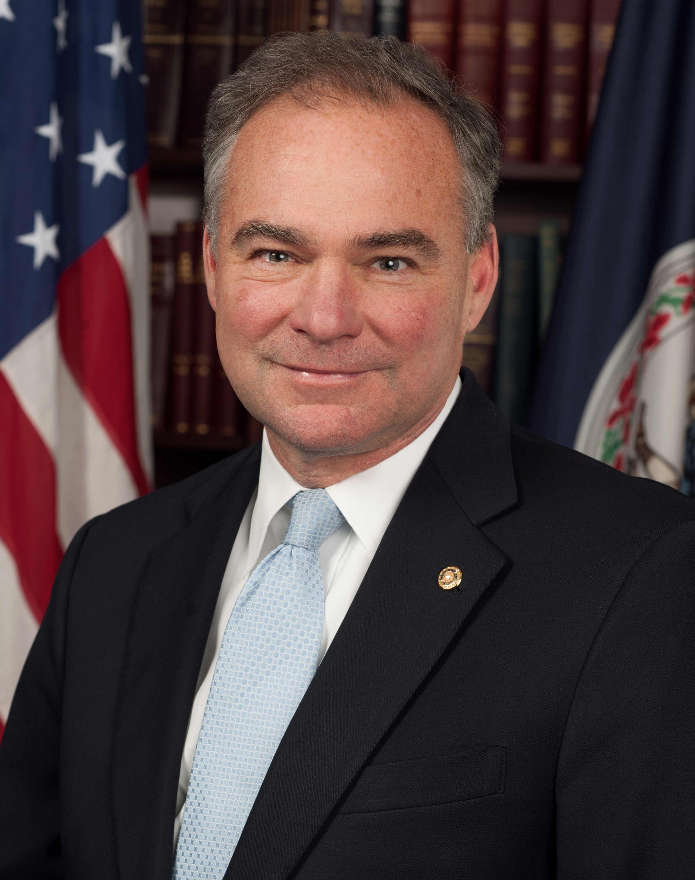 Tim Kaine, member of the United States Senate from Virginia.